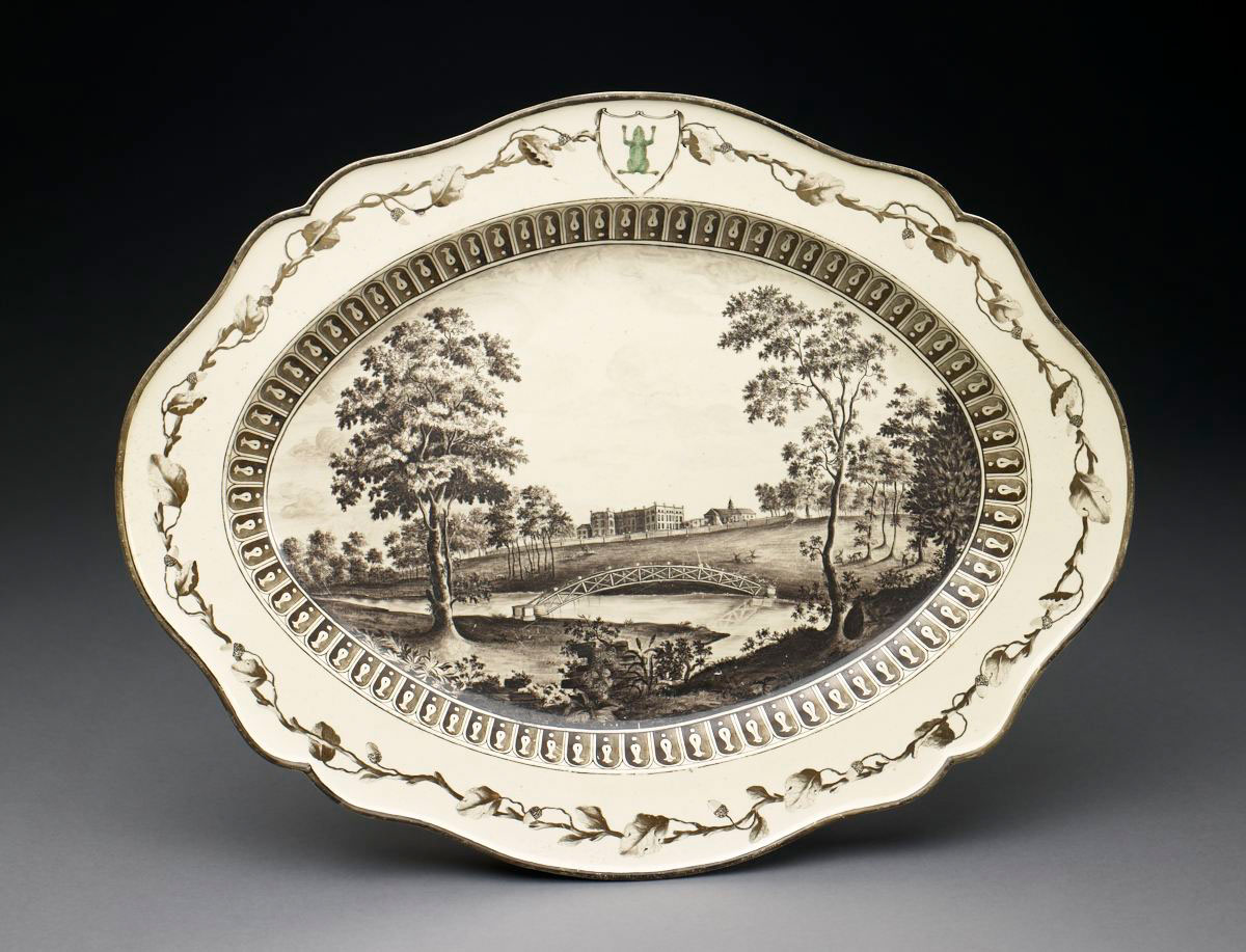 A platter from the Green Frog Service by Wedgwood. The platter depicts Ditchley Park in Oxfordshire, the seat of the Earls of Litchfield.